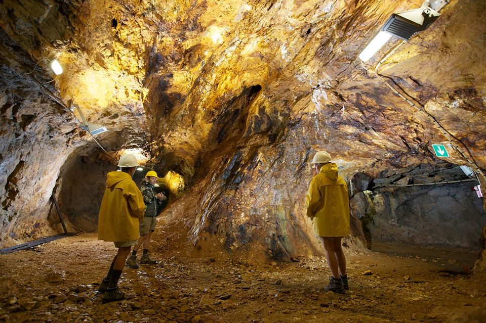 Miniere d'oro della Val Toppa, Pieve Vergonte